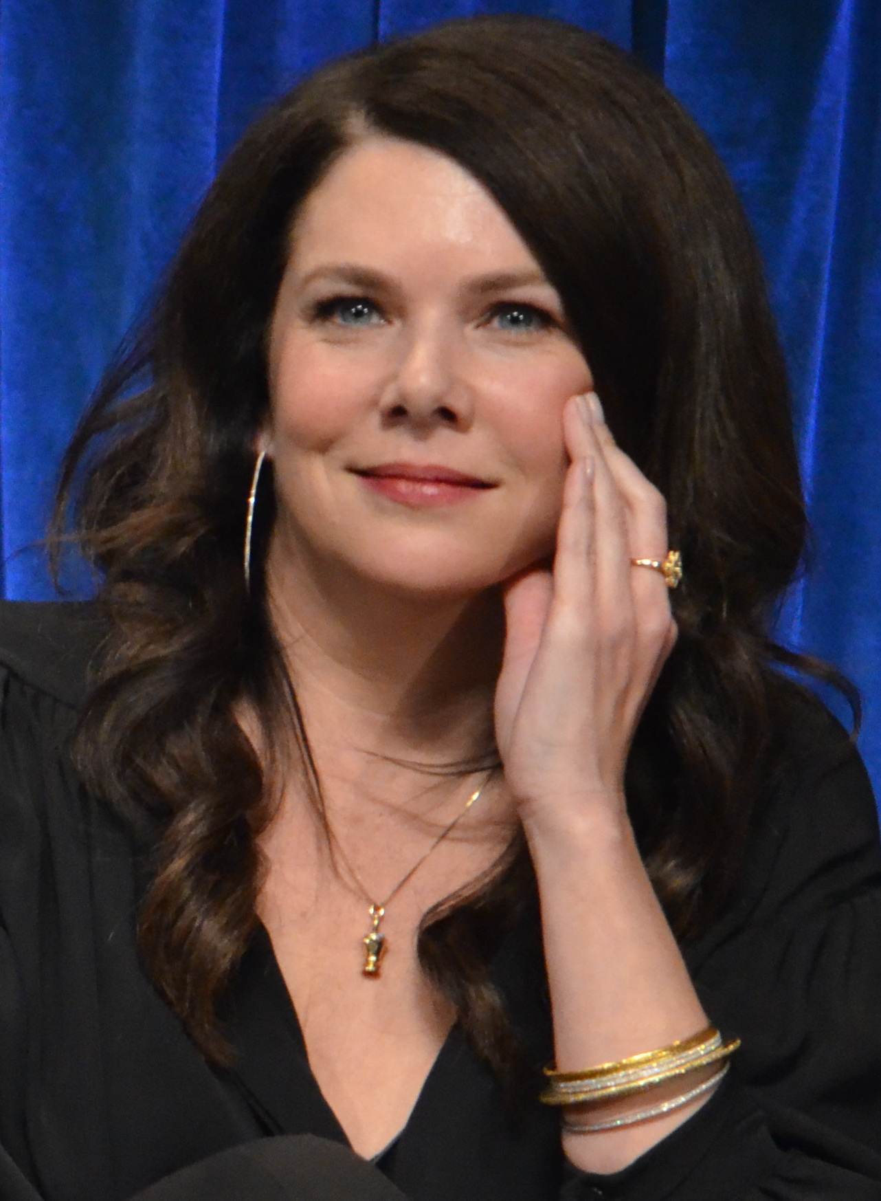 Lauren Graham at the Paleyfest 2013: Parenthood.